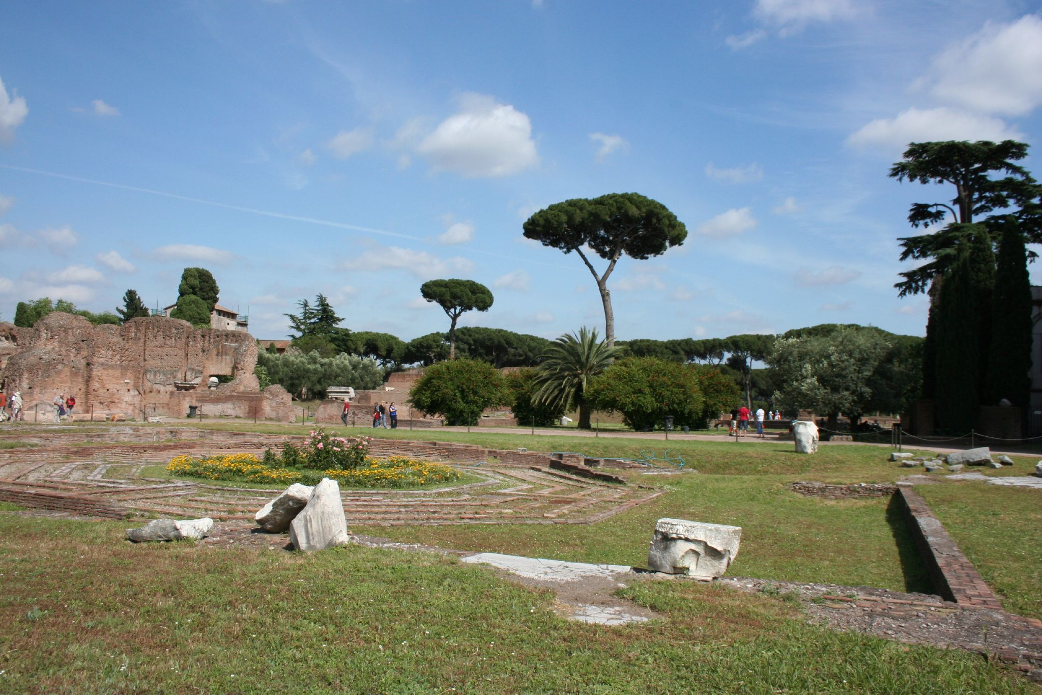 see above